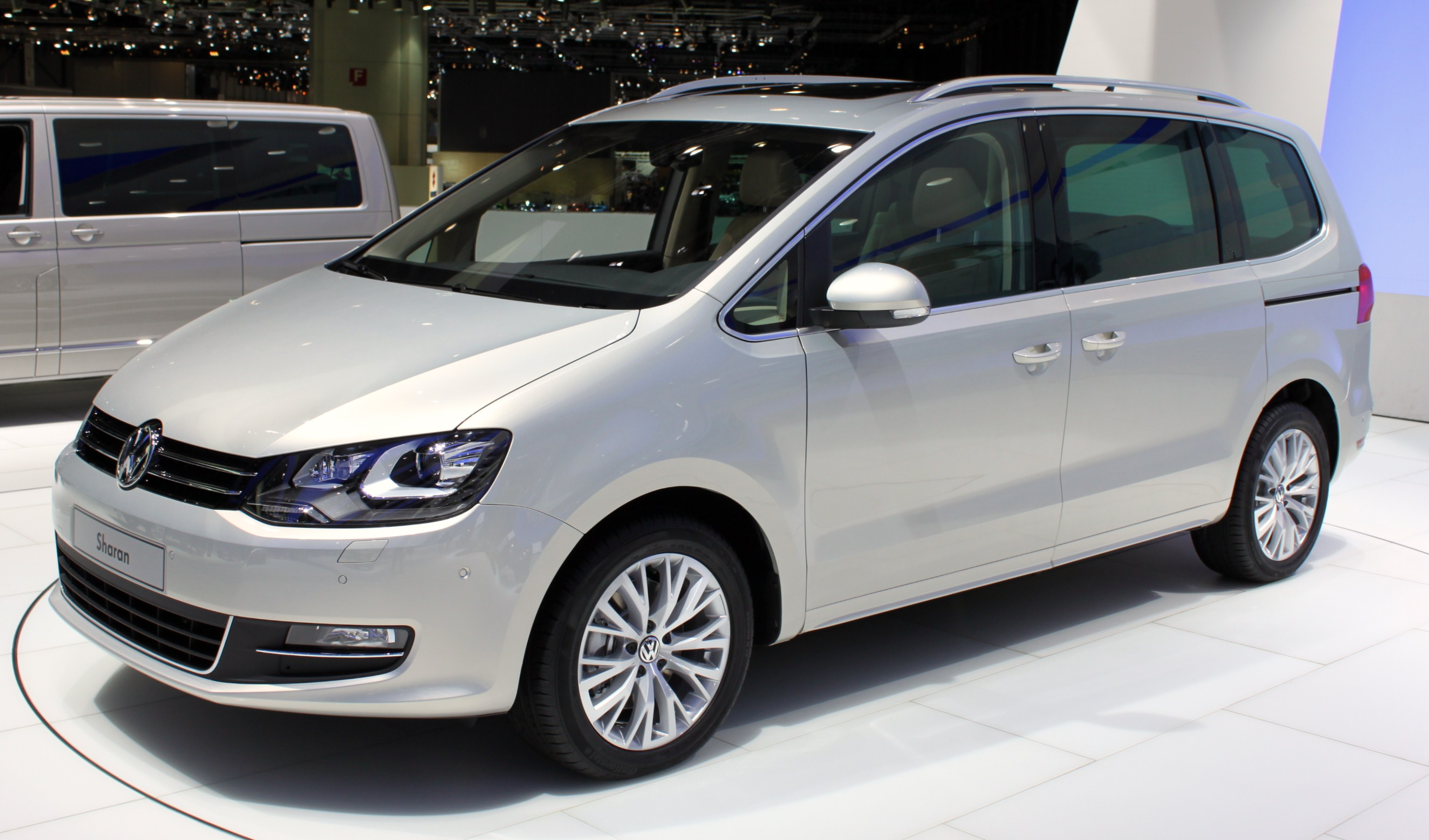 VW Sharan MKII at the 2010 Geneva Motor Show